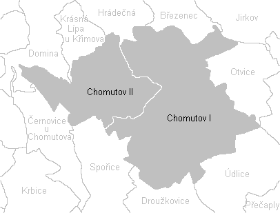 Cadastral map of Chomutov